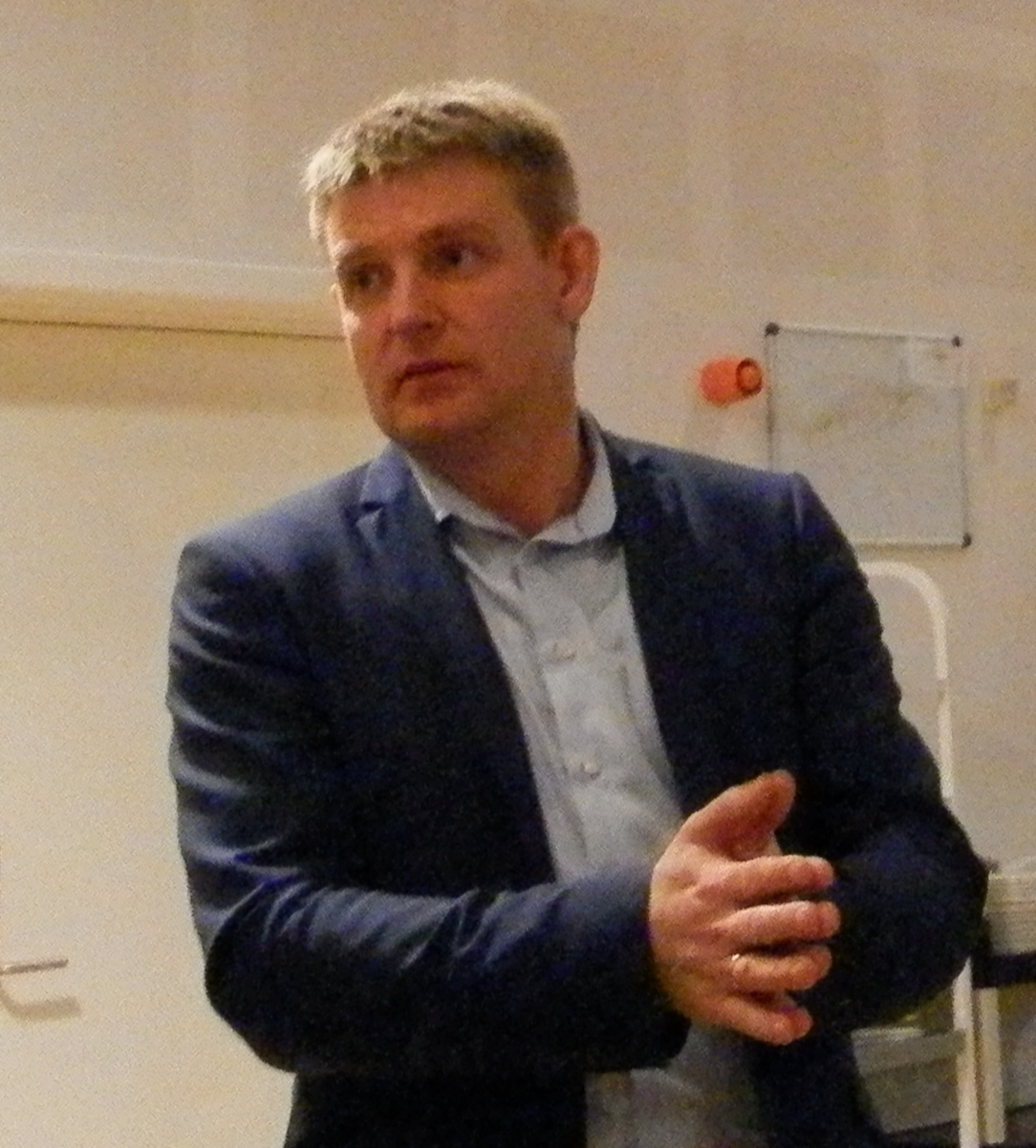 Aksel V Johannesen is a Faroese politician, the leader of Javnaðarflokkurin.